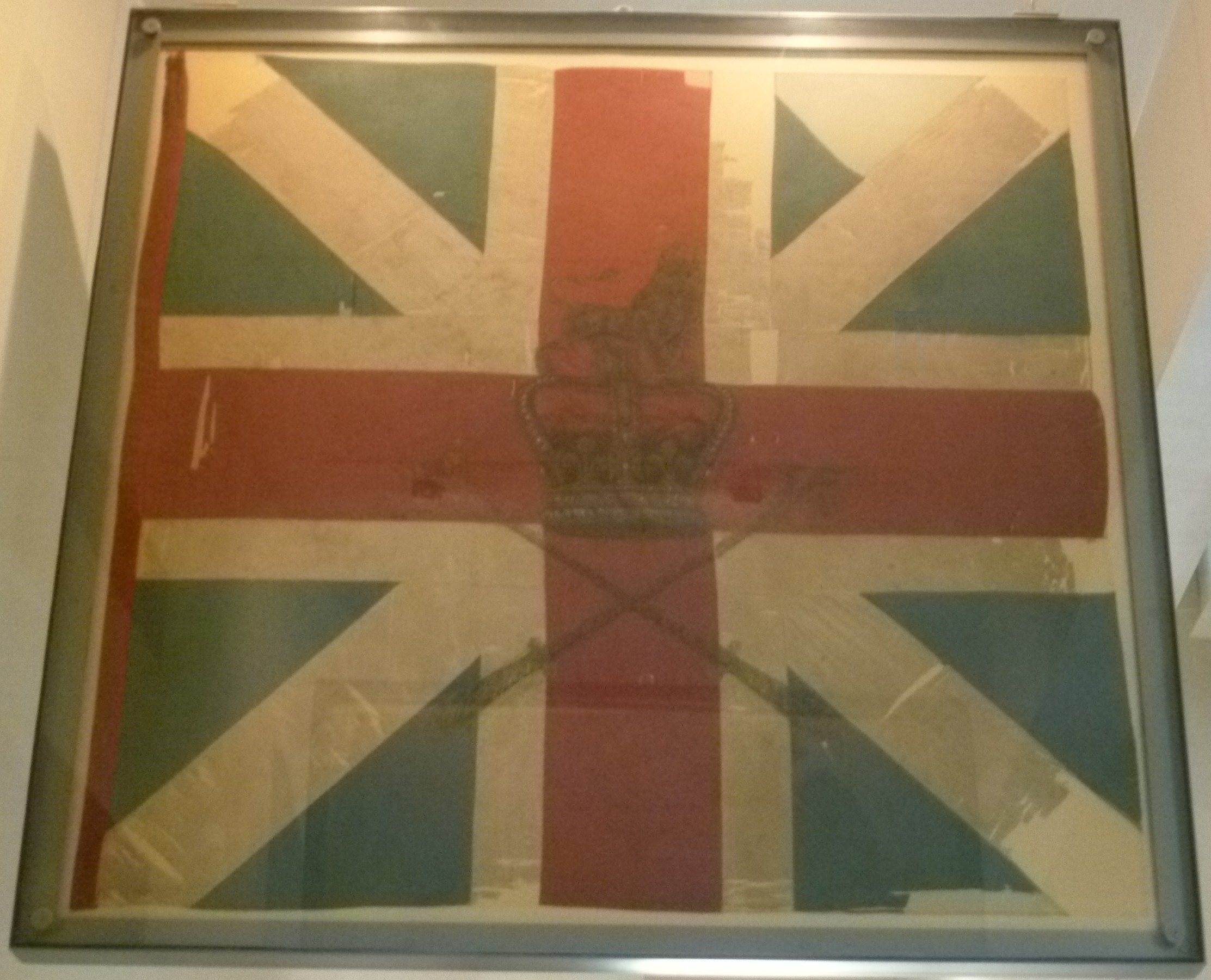 Colours of Barrell's 4th King's Own Royal Regiment of Foot, carried at the Battle of Culloden, 1746. On display in the National Museum of Scotland.